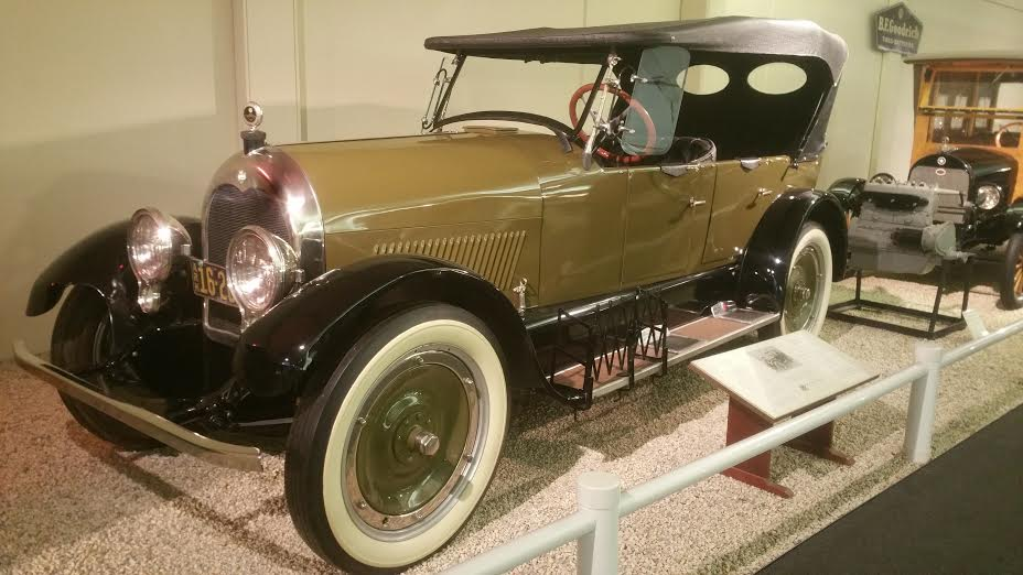 1923 Climber Model 6-50; One of only 2 climbers that still exist, in The Museum of Automobiles in Petit Jean Arkansas.